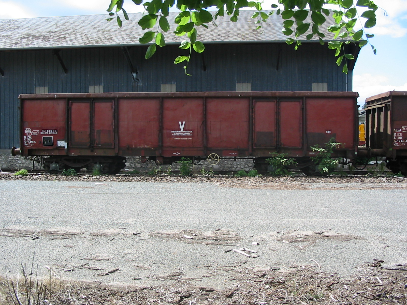 A french gondola car at Blois